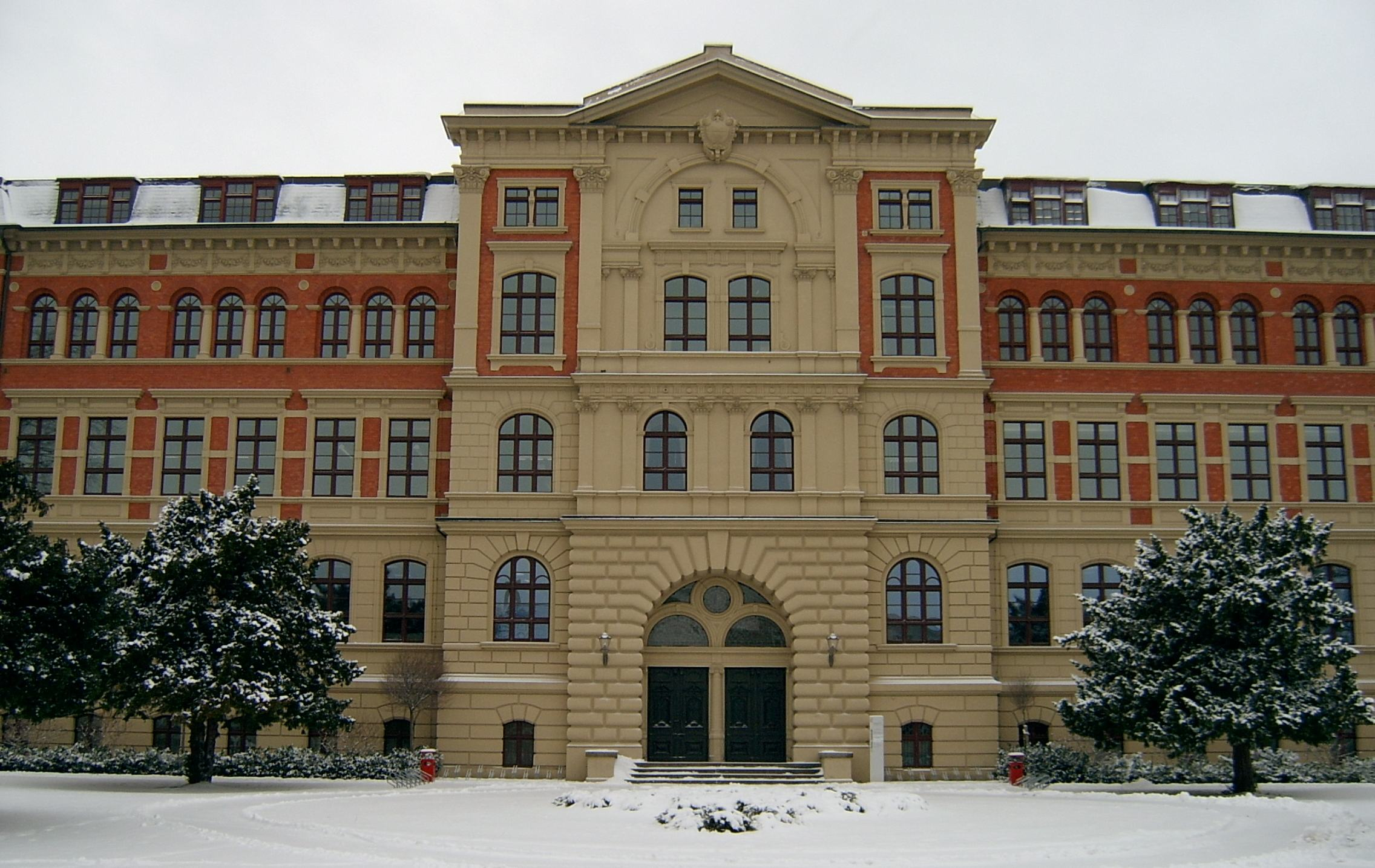 main building of the Fachhochschule Anhalt in Köthen (Anhalt)